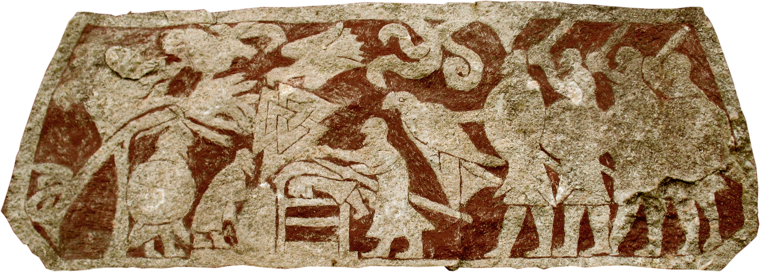 Scene from Stora Hammar stone